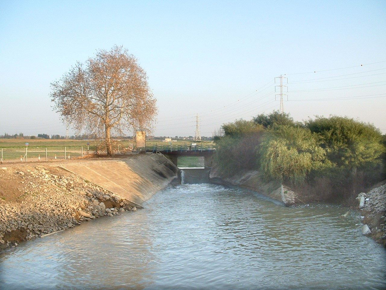 The "Nahalei Menashe" water carrier in Israel, just after it passes the Mismarot river.